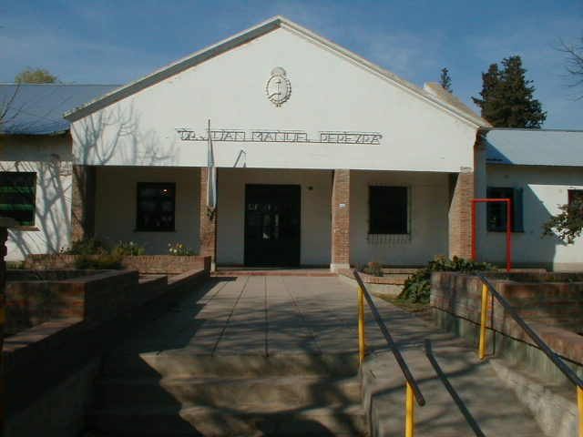 Dr. Juan Manuel Pereyra School, in Bengolea (Córdoba Province, Argentina).